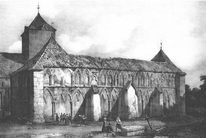 West front of Nidaros Cathedral, Trondheim, Norway. Etching by August Meyer, 1839.